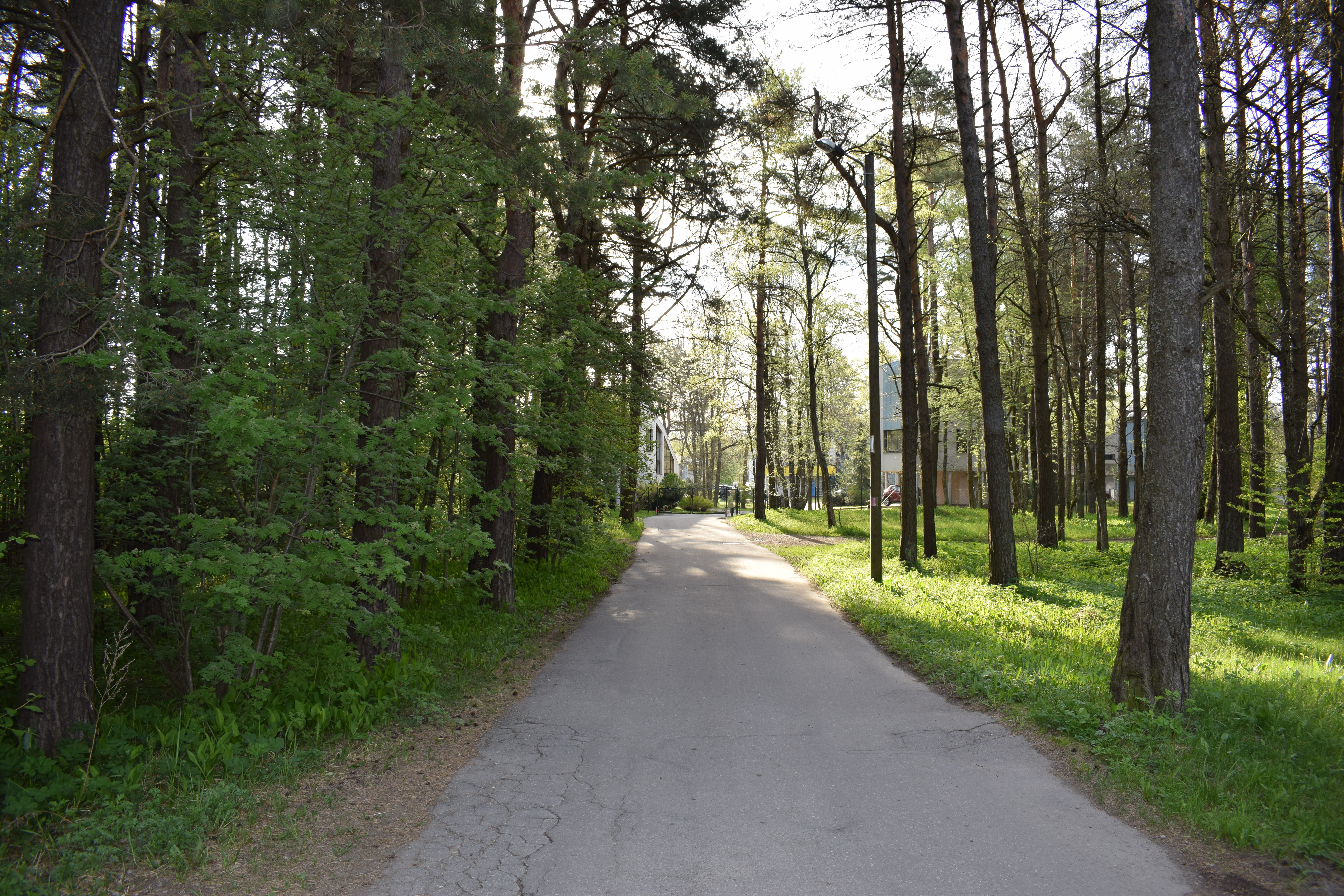 Teelehe tee